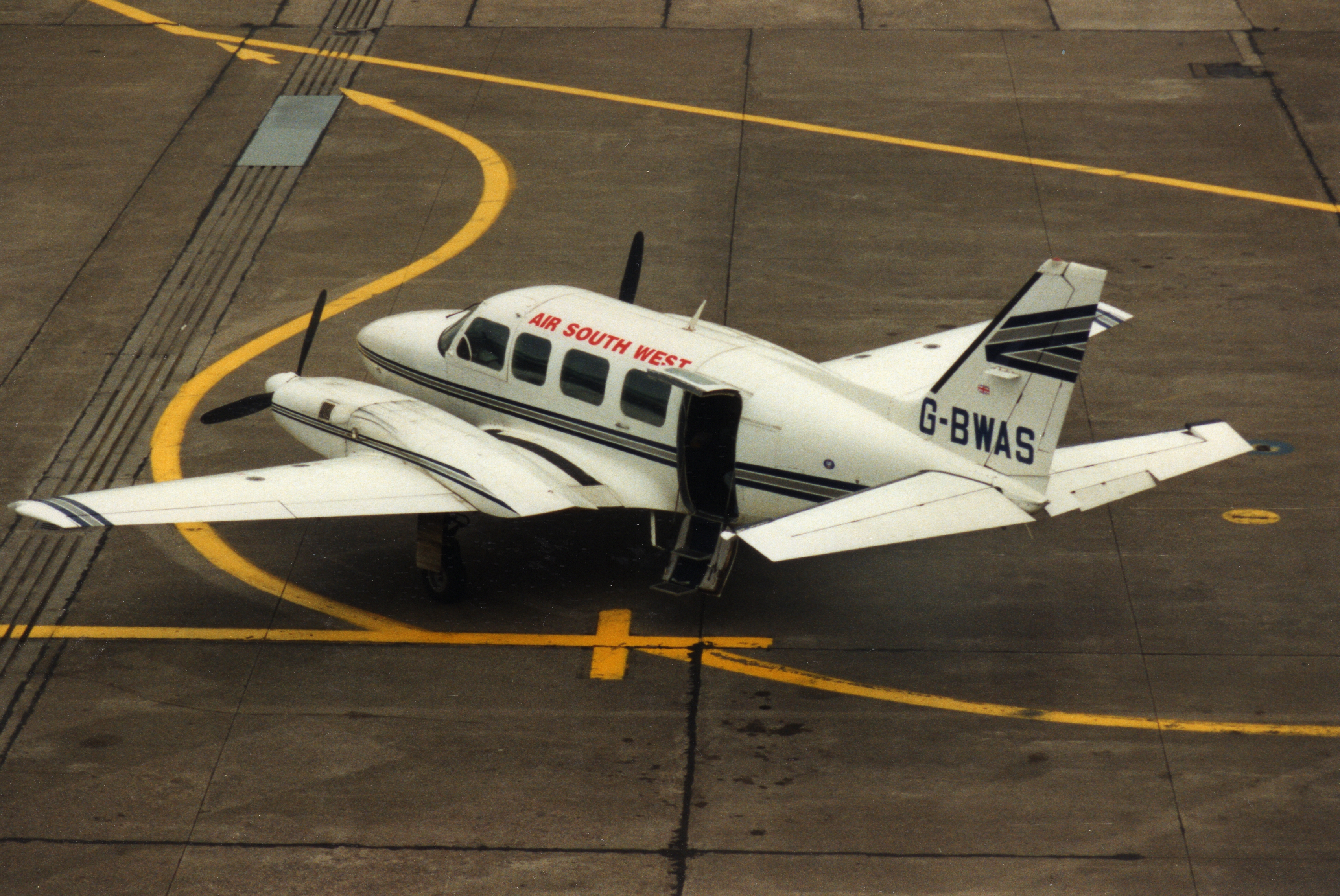 Air South West (G-BWAS) Piper PA-31 Navajo Chieftain aircraft, Dublin Airport, Dublin, Republic of Ireland, June 1994